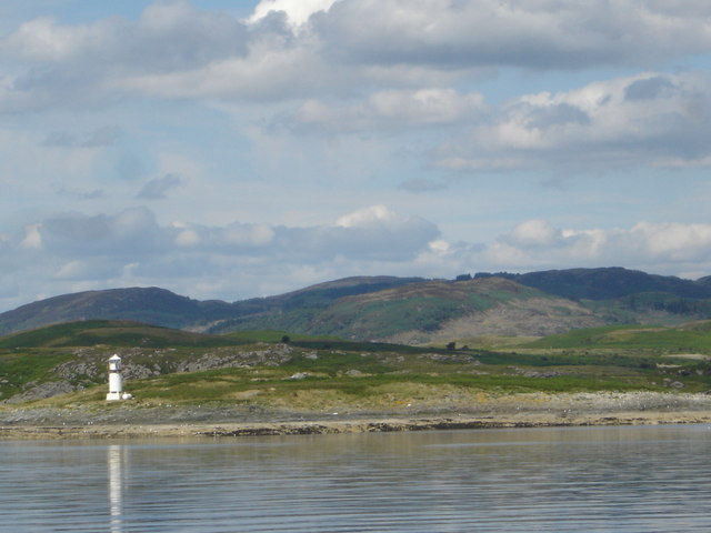 Island of Sgat Mòr off the southern end of the Cowal Peninsula, Loch Fyne. Uninhabited island with beacon viewed from PS Waverley